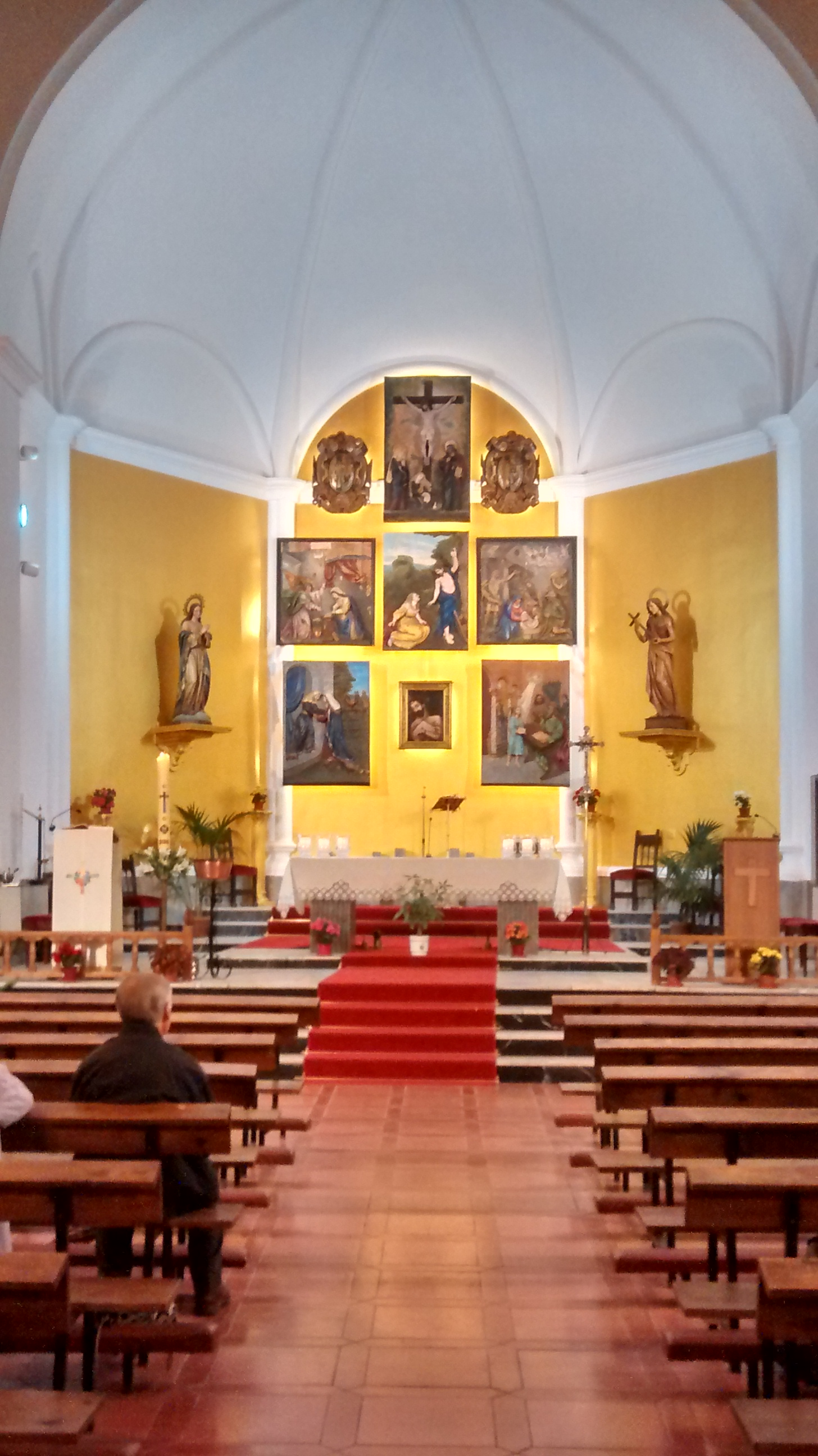 Church Santa María Magdalena, Malagón, Spain.